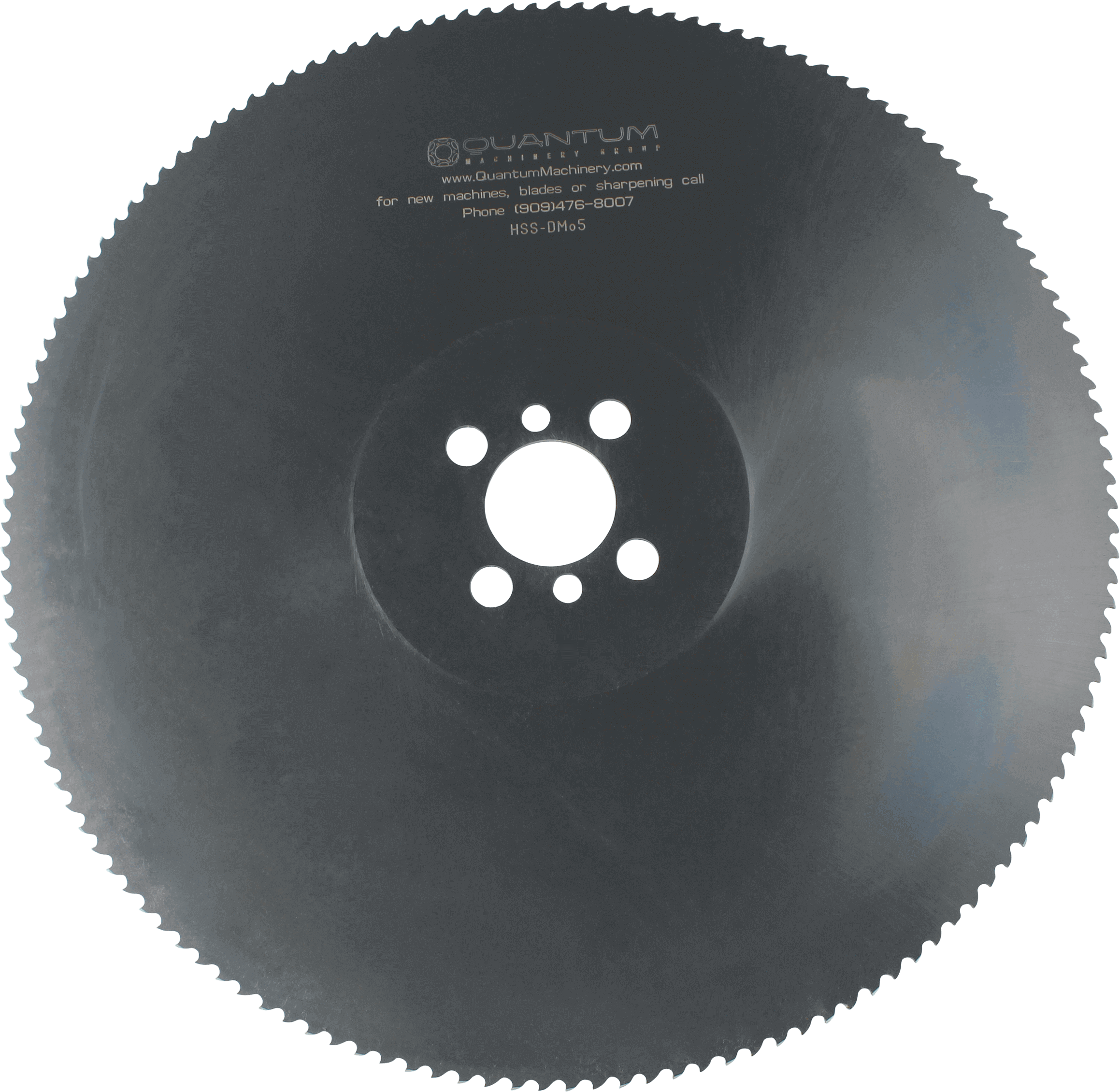 These Circular HSS Cold Saw Blades are some of the most popular cold saw blades in the U.S. market.